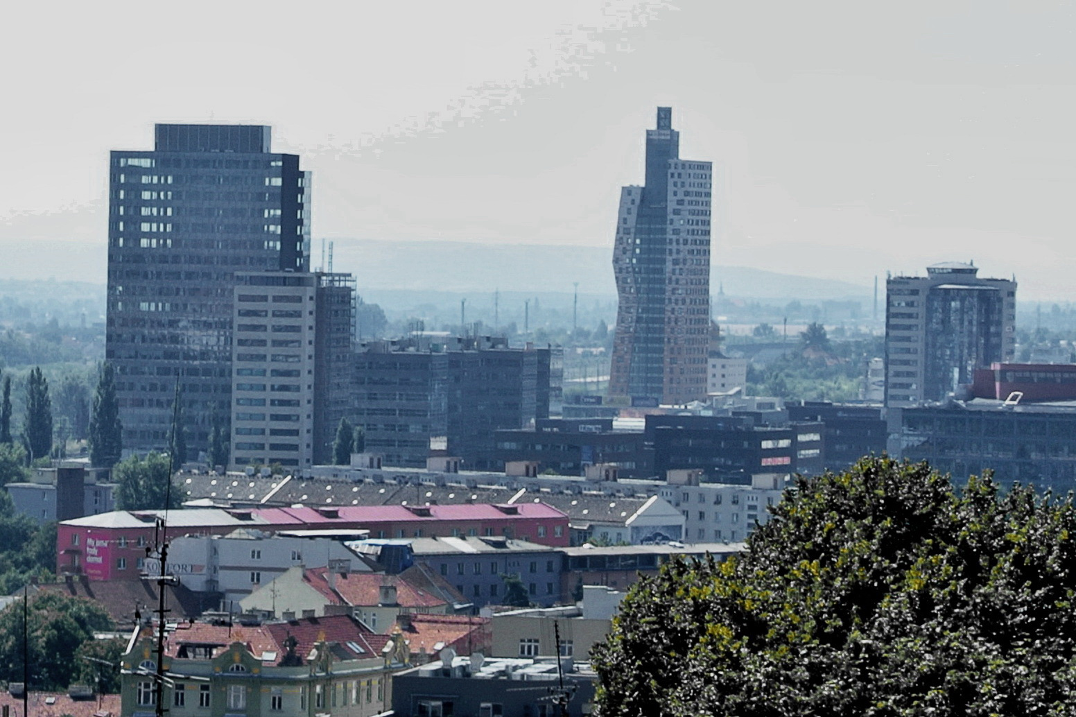 scyscrapers in Brno